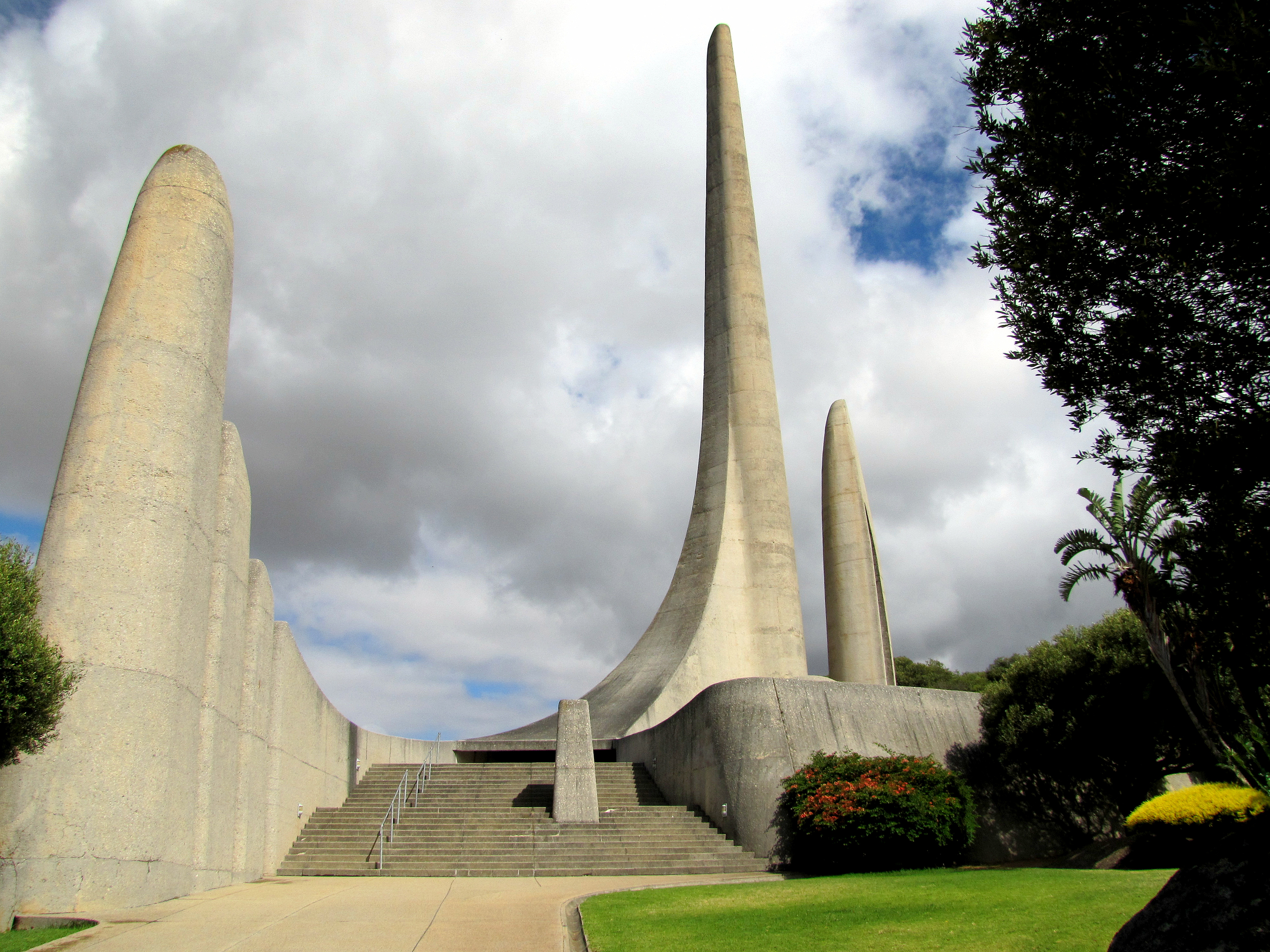 This monument is made of granite and is situated in Paarl in the Western Cape winelands.